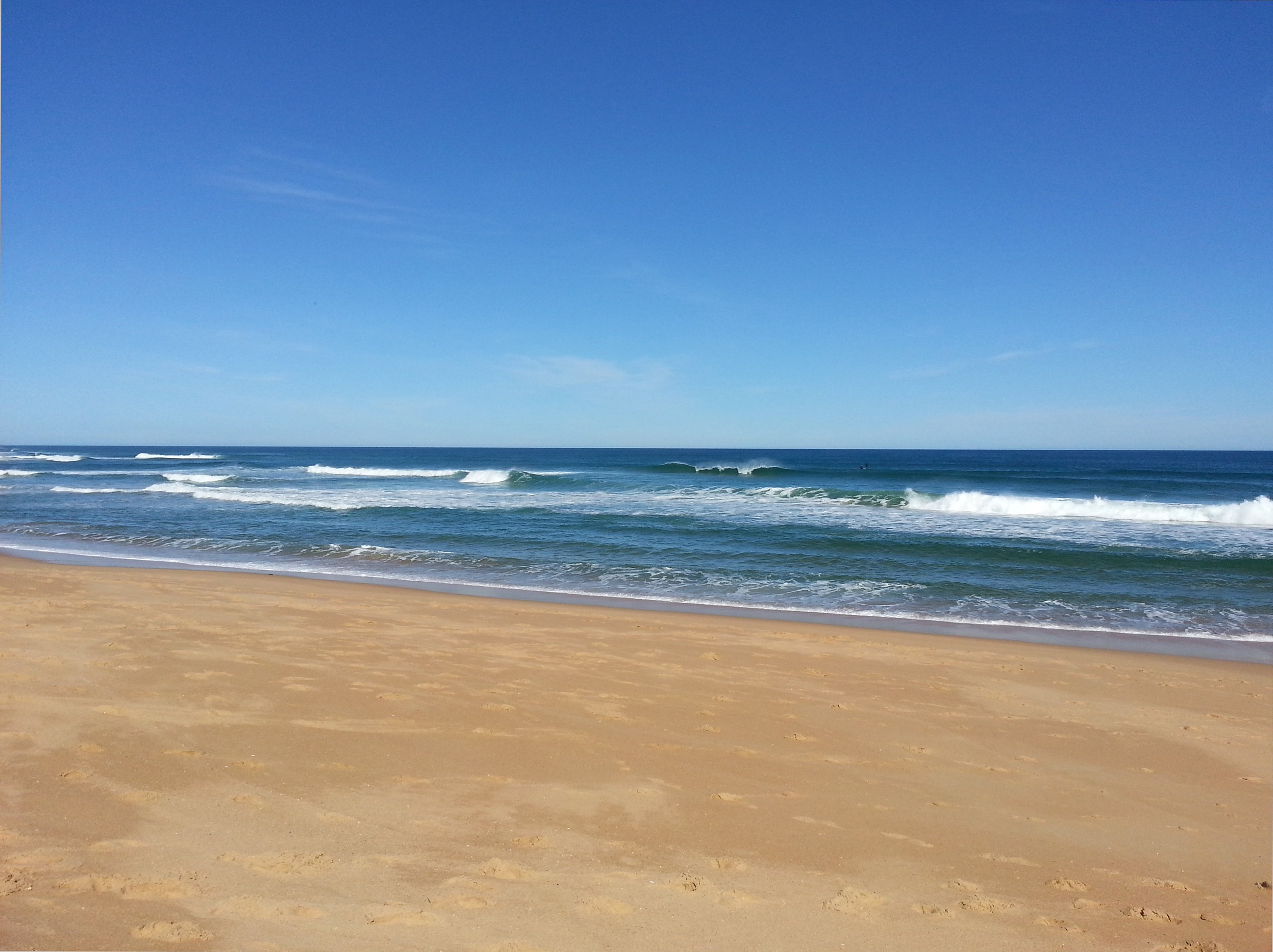 Williamsons Beach in Wonthaggi and Dalyston, Victoria, Australia